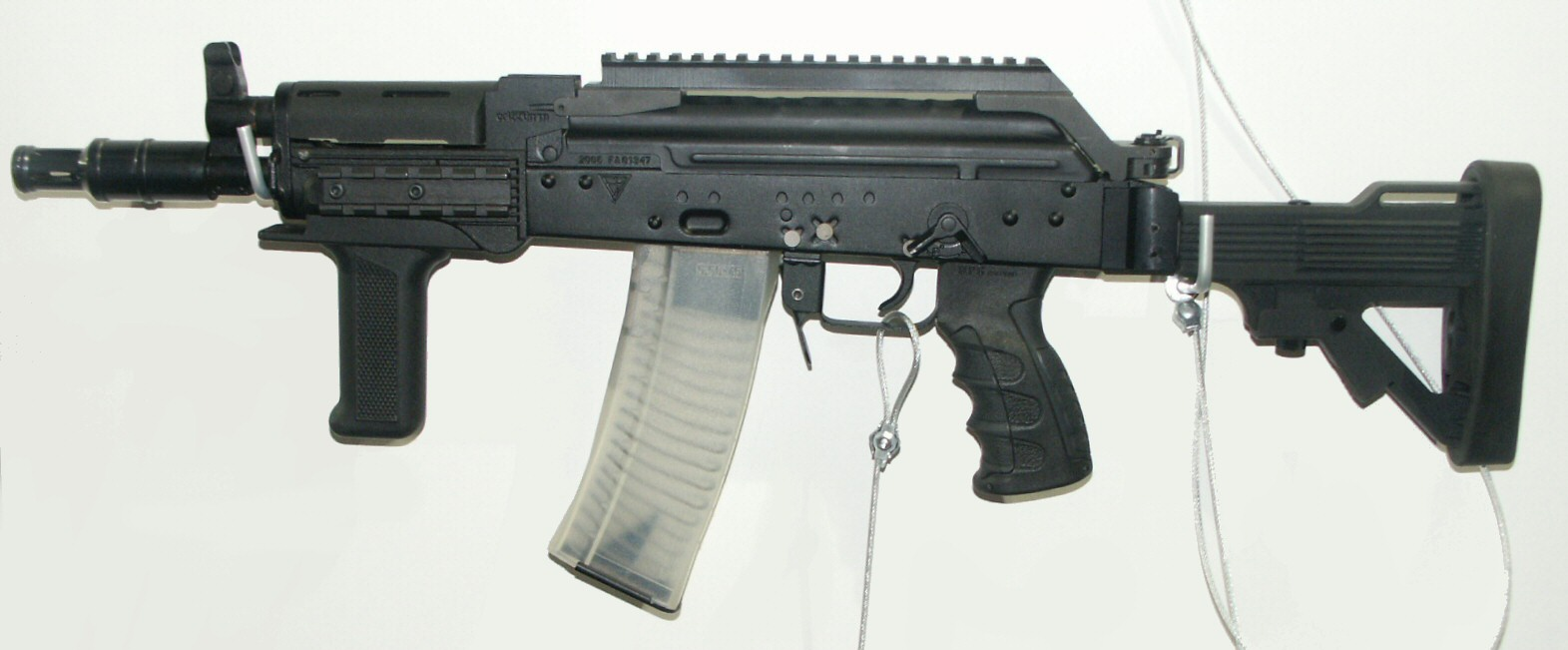 Polish short rifle wz.96 Mini Beryl